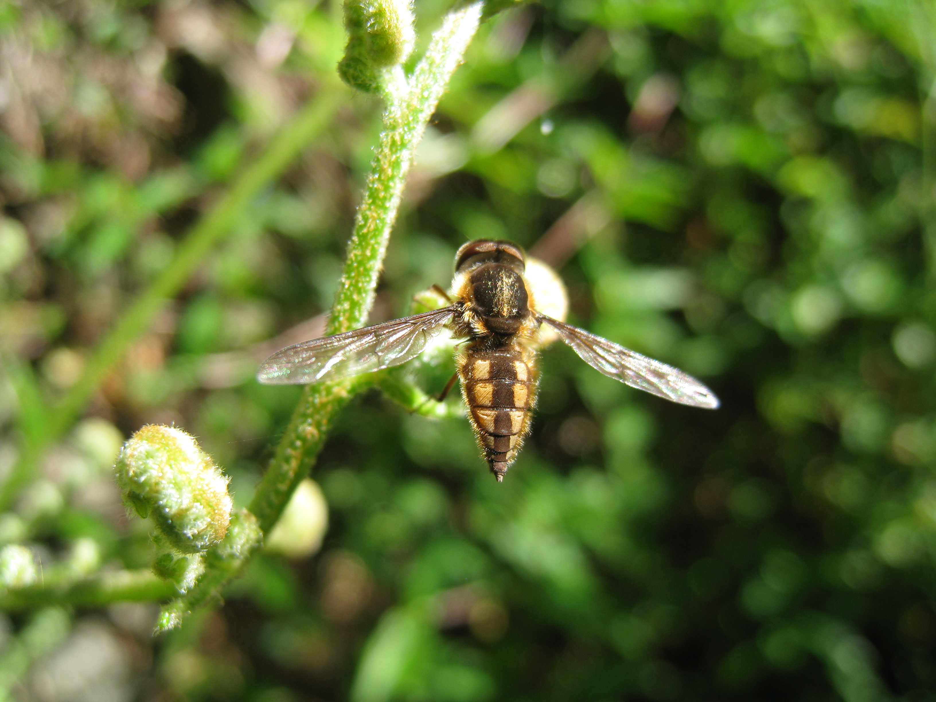 Trichophthalma bivitta, family Nemestrinidae. Royal National Park, NSW Australia, November 2011.